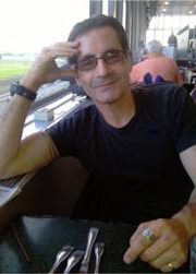 Dr. Mike Abrams Pic